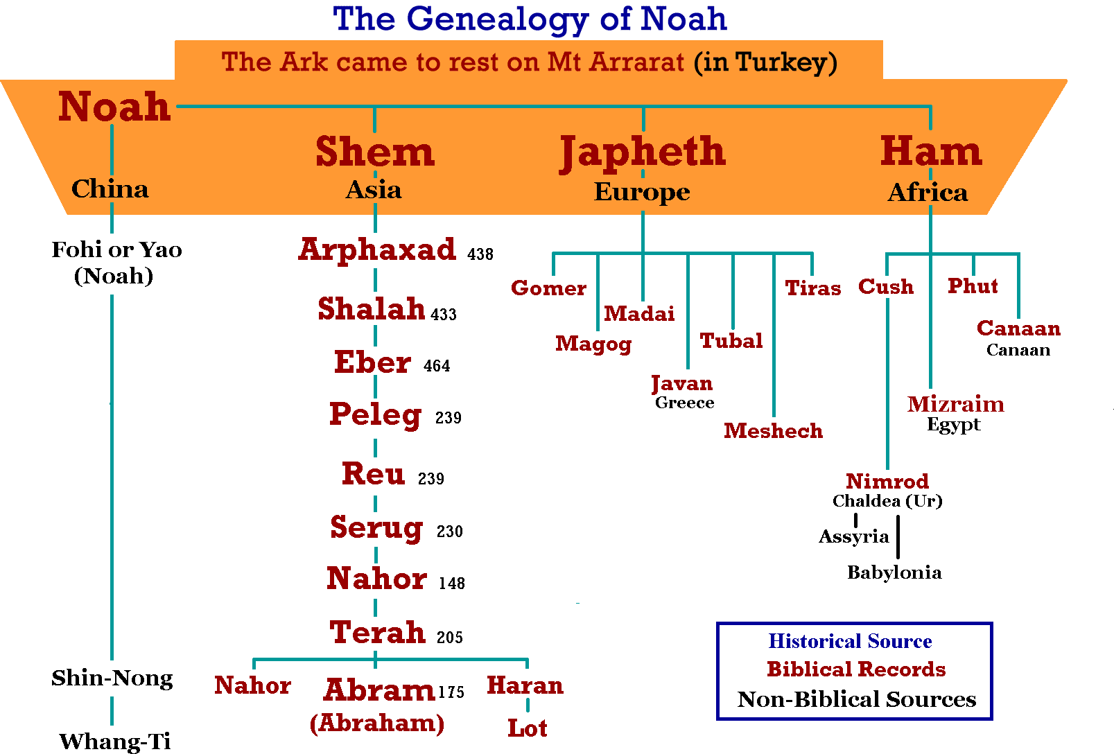 The genealogy of Noah to Abraham according to the Bible